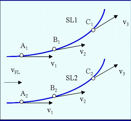 Molecular power. Streamlines. Describes the hydrodynamics of fluids.